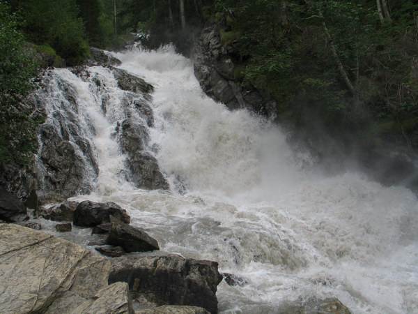 Simmenfaelle, the falls of the river Simme near Lenk in Switzerland